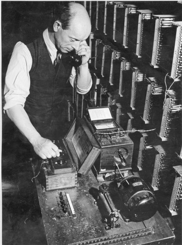 The Telephone Service Carries On, London, January 1942 An engineer at work to localise a fault on a telephone line between two exchanges (a junction) or on a subscriber's line. Parts of the Main Frame circuit boards can also be seen.